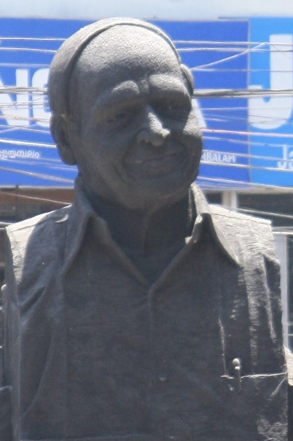 Bust of poet and lyricist P. Bhaskaran in Maaveeyam Veedhi, Thiruvananthapuram